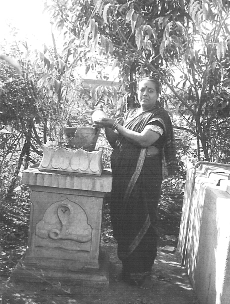 A Maharashtrian Deshastha woman in the traditional attire from 1970s. Picture of a Maharashtrian Deshastha woman in the traditional attire from 1970s.